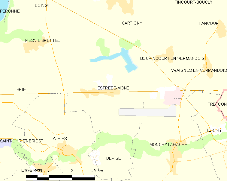 Map of French municipality Estrées-Mons